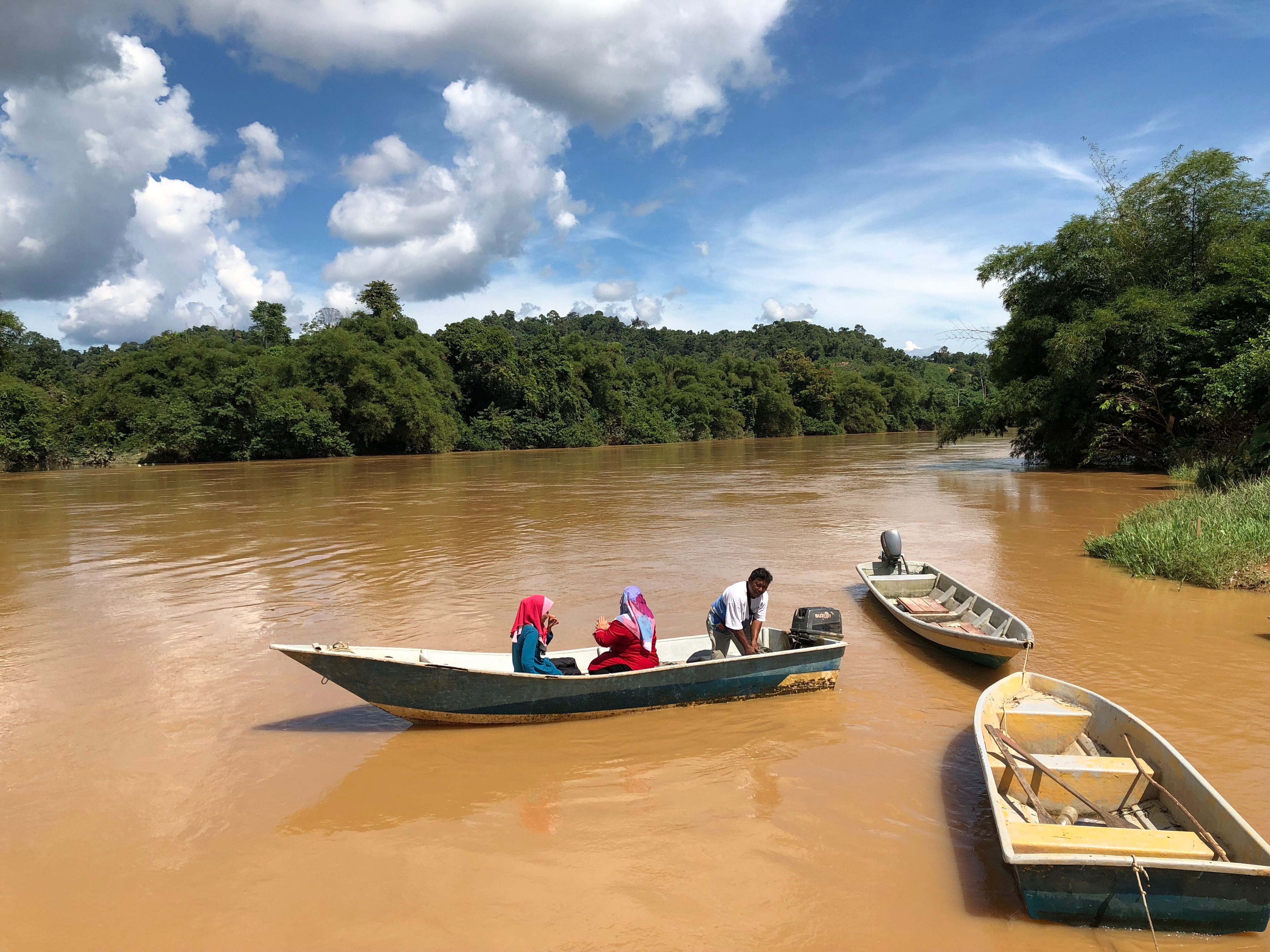 Villagers' boats.